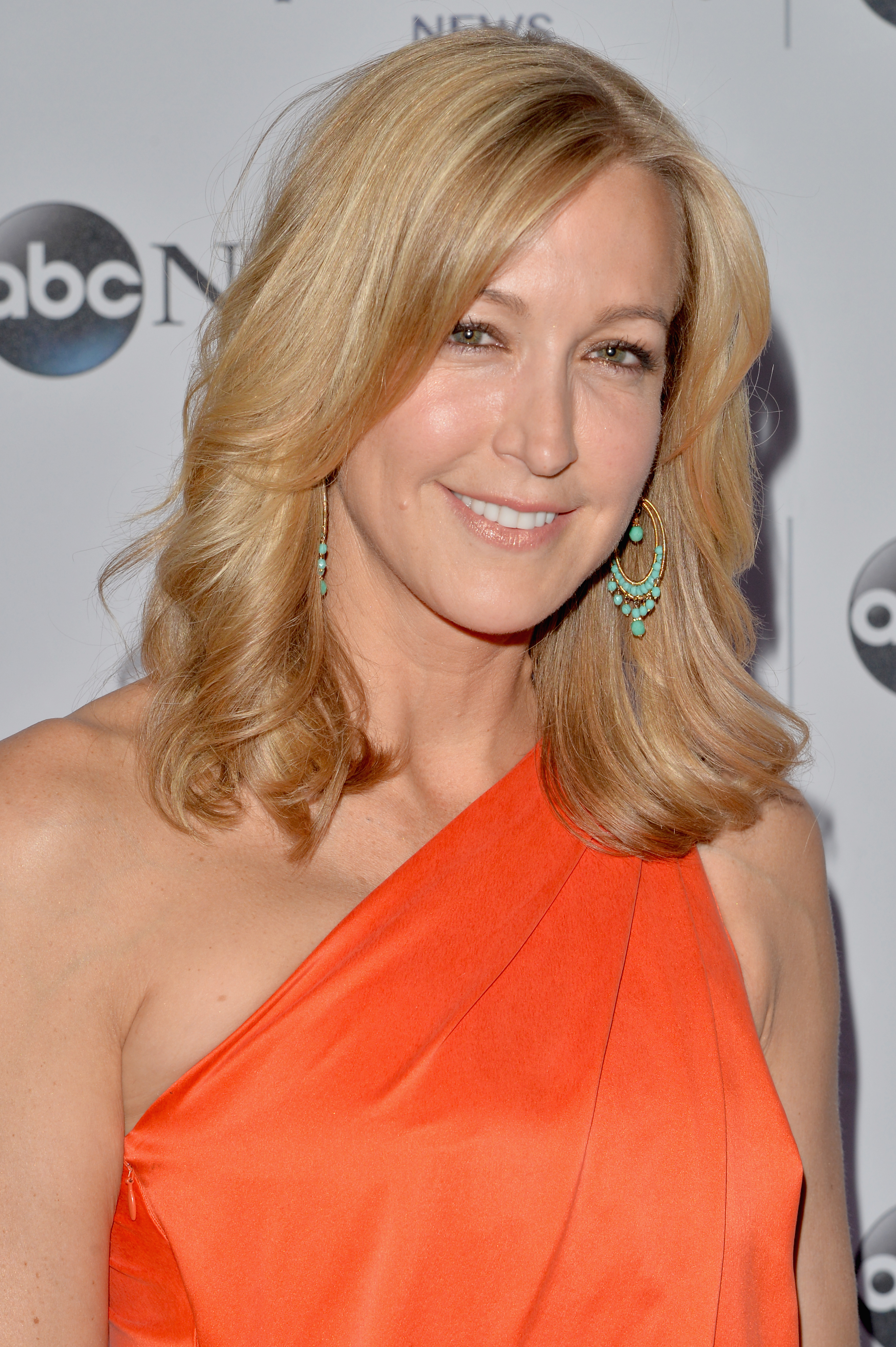 WASHINGTON, DC - MAY 03: Lara Spencer attends the Yahoo News/ABCNews Pre-White House Correspondents' dinner reception pre-party at Washington Hilton on May 3, 2014 in Washington, DC. (Photo by Andrew H. Walker/Getty Images for Yahoo News)